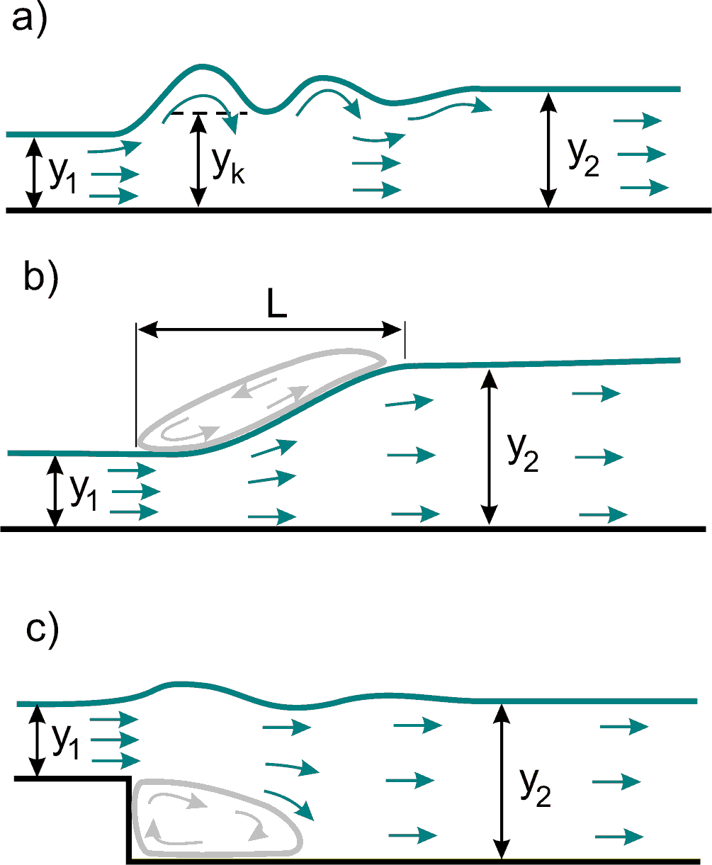 hydraulic jump - types